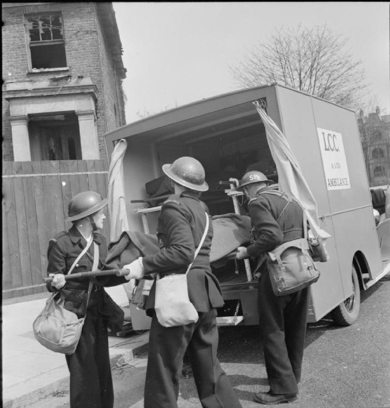 The Reconstruction of 'an Incident'- Civil Defence Training in Fulham, London, 1942 Two female ambulance drivers help men of the 'light rescue' stretcher party to slide a stretcher case into a waiting ambulance. These casualties will then be taken either to the first aid post in a nearby school, or transported to hospital. A window-less bomb-damaged house is just visible behind them. This photograph was taken on West Cromwell Road/Conan Street, where it joins Edith Villas.